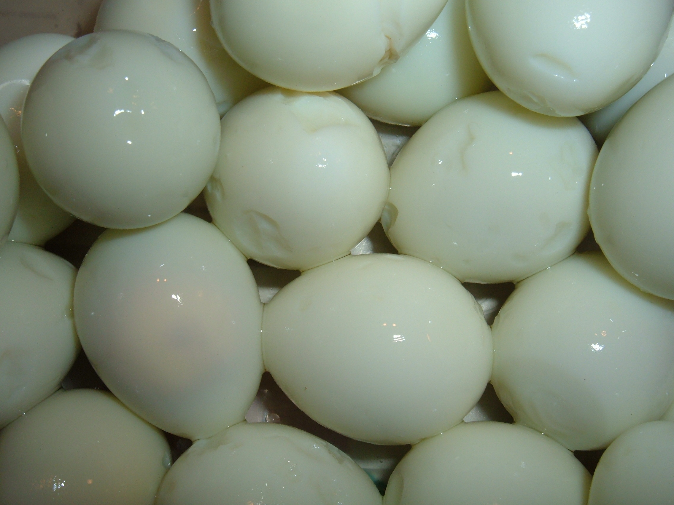 Peeled Japanese quail eggs